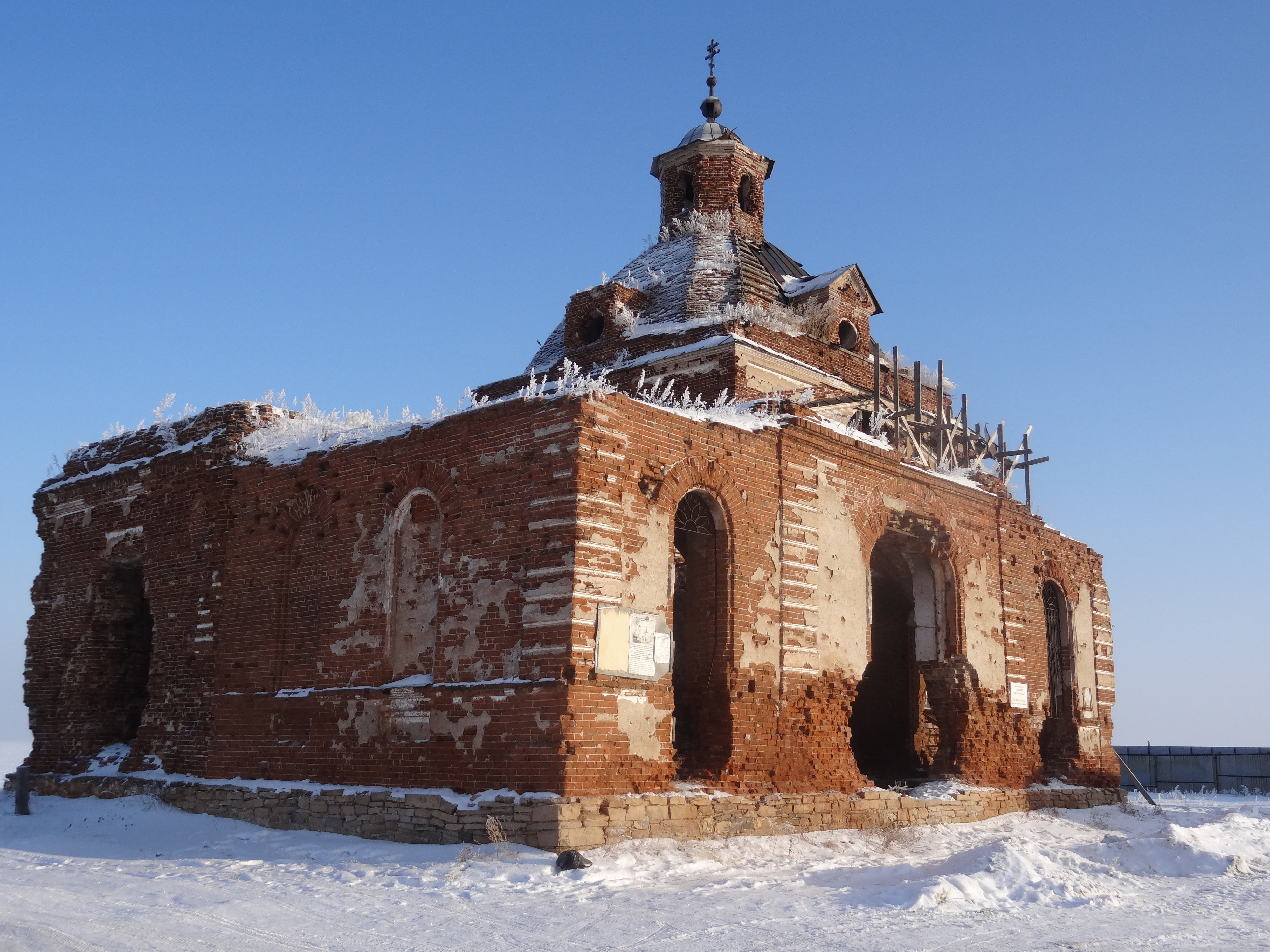 Church of Our Lady of Tikhvin in Rybnikovskoe village, Sverdlovsk Oblast, Russia.